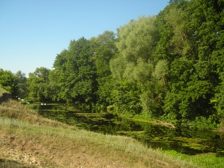 Archeda river.